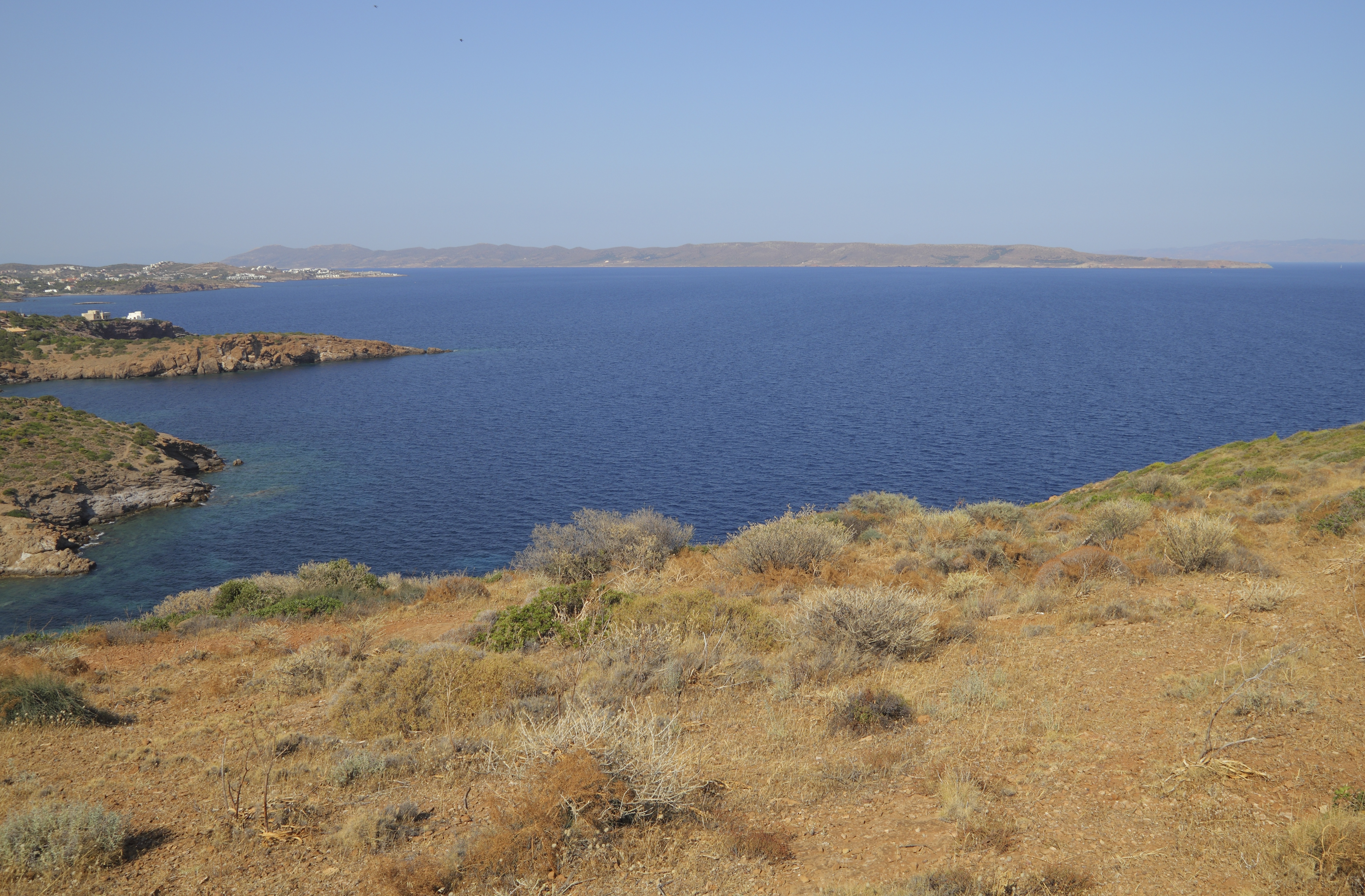 View from Cape Sounion (Attica, Greece) to Makronisos Island